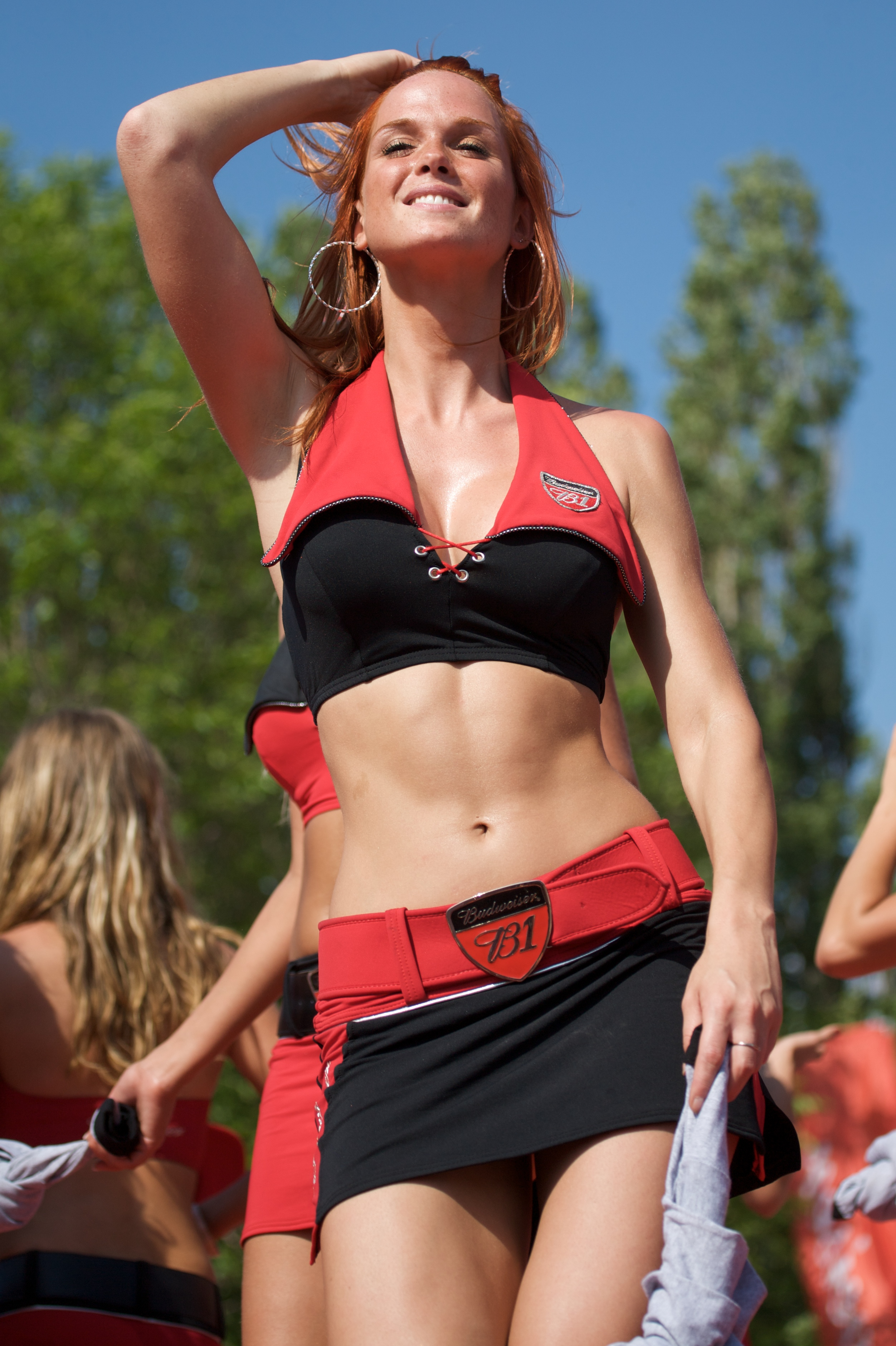 Budweiser promotional beer girl at a sporting event, the Canadian Grand Prix